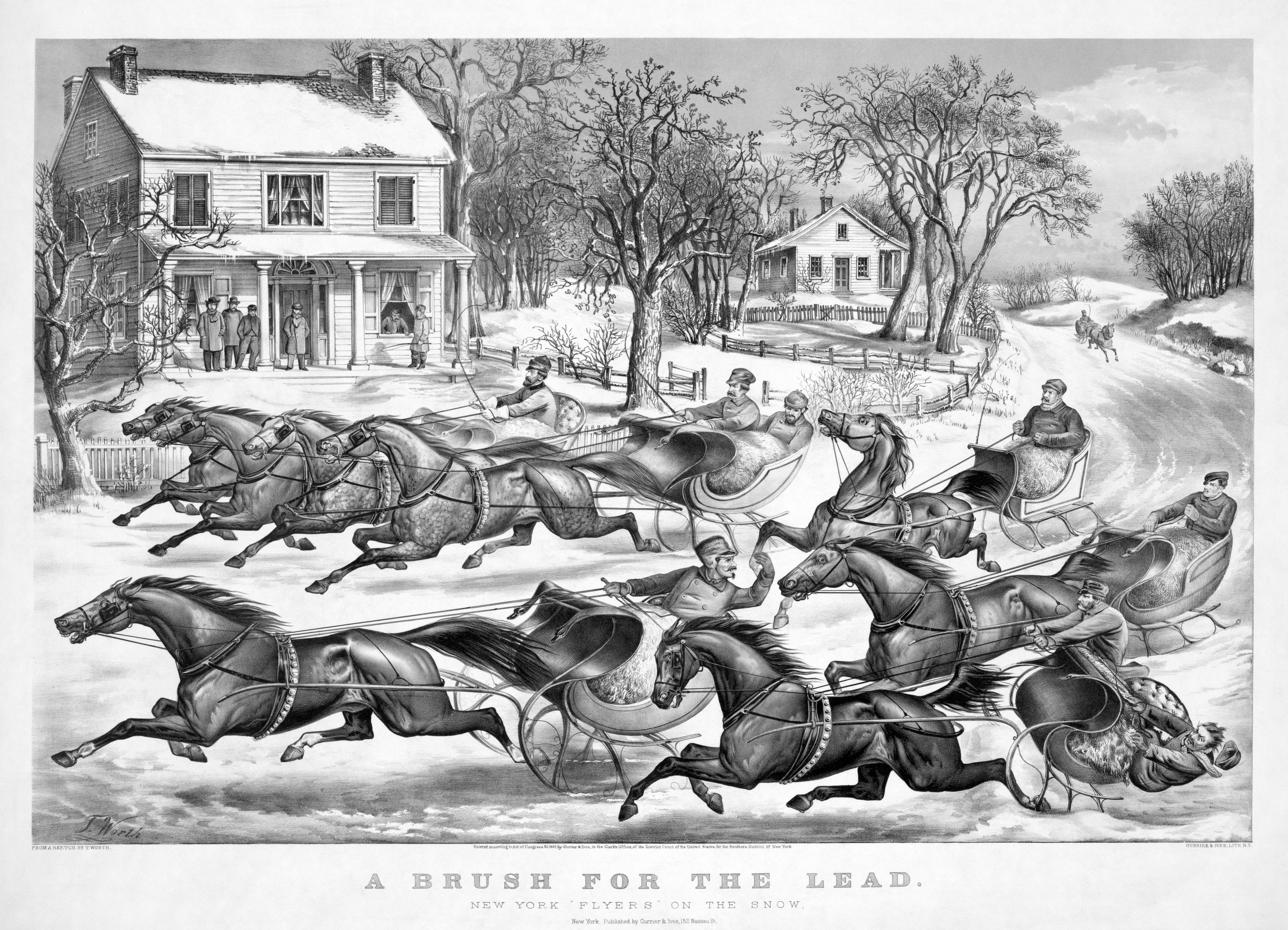 A brush for the lead: New York "Flyers" on the snow. 1 print : lithograph.